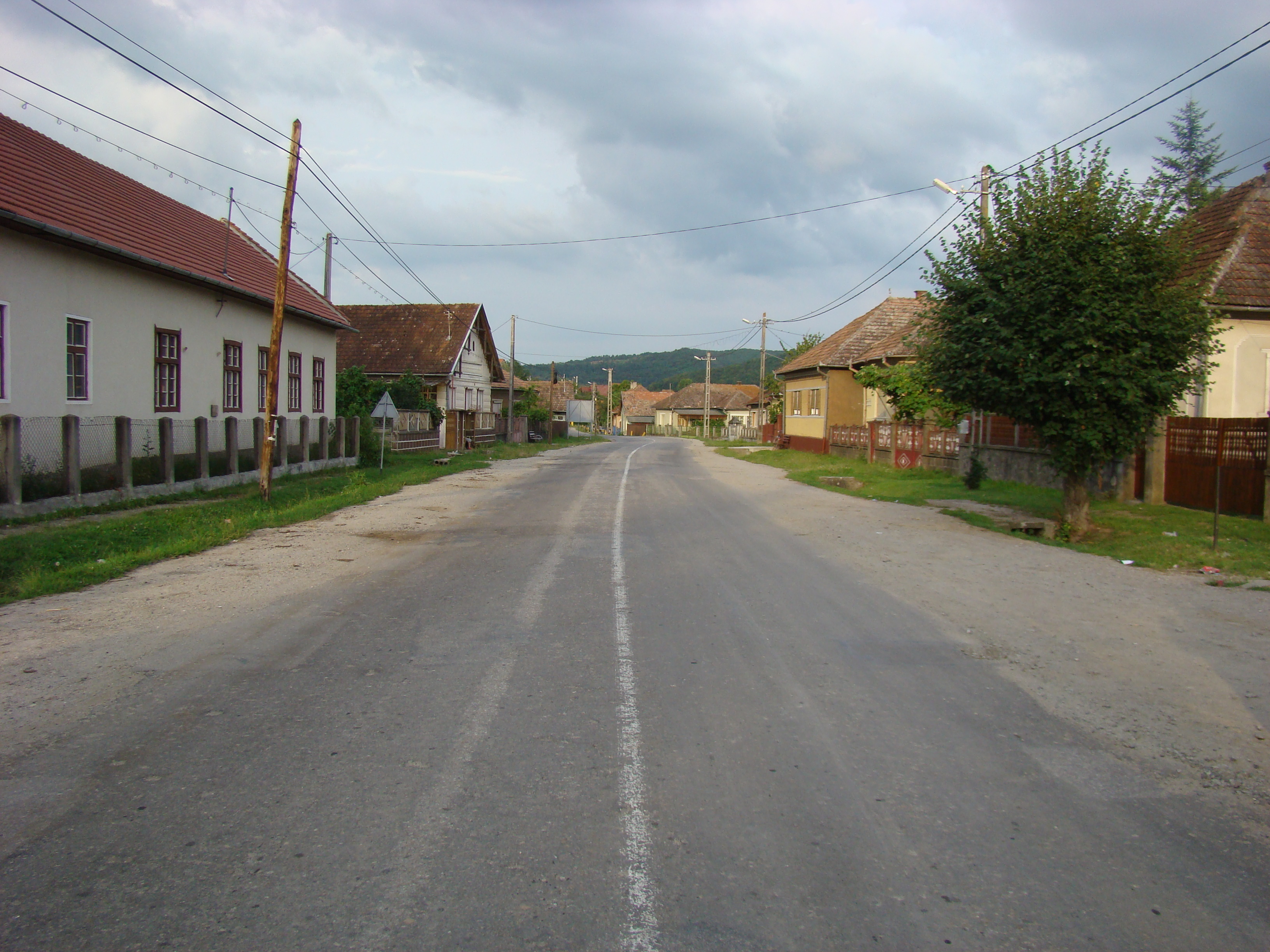 Almaşu, Sălaj county, Romania